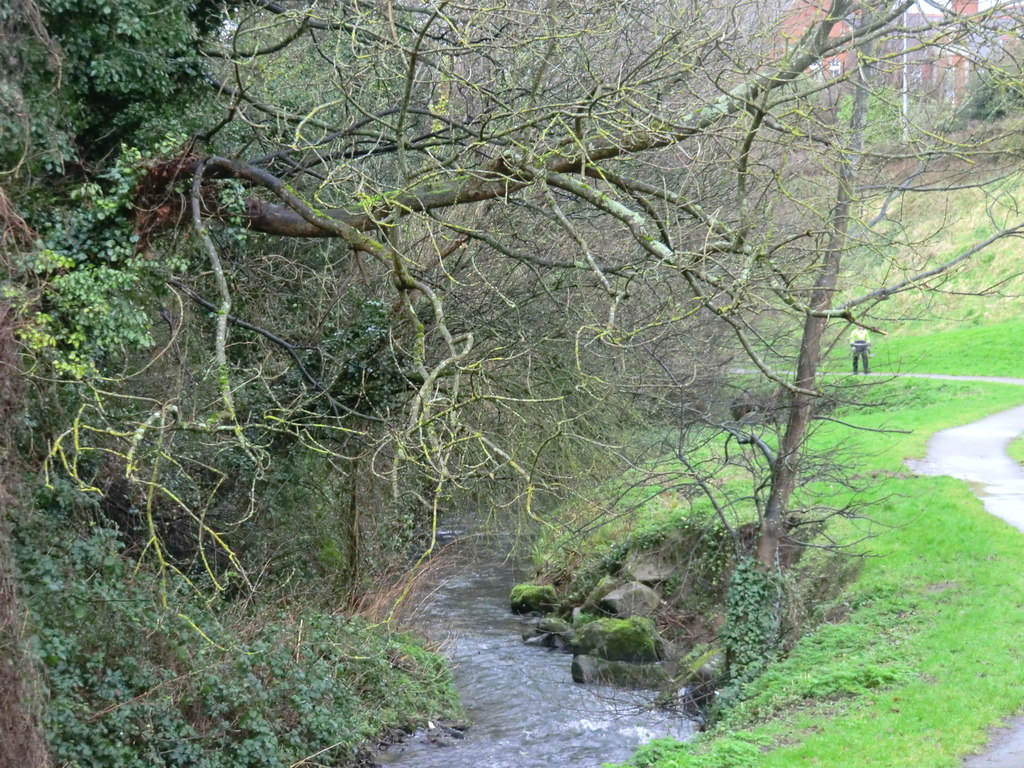 Little Dargle River in northern Churchtown